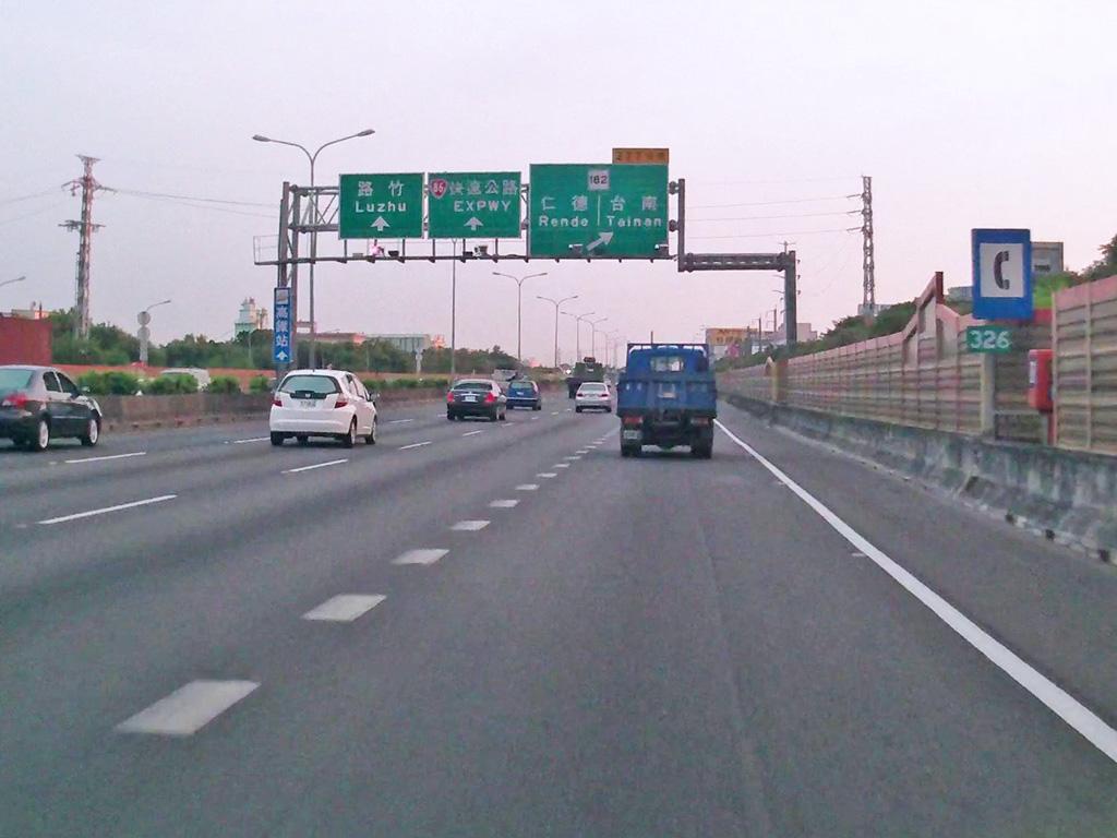 Tainan IC on the Taiwan No1 National Highway.Bân-lâm-gú: Tâi-uân kok-tō it-hō ê Tâi-lâm Kau-liû-tō. 台灣國道一號的台南交流道。